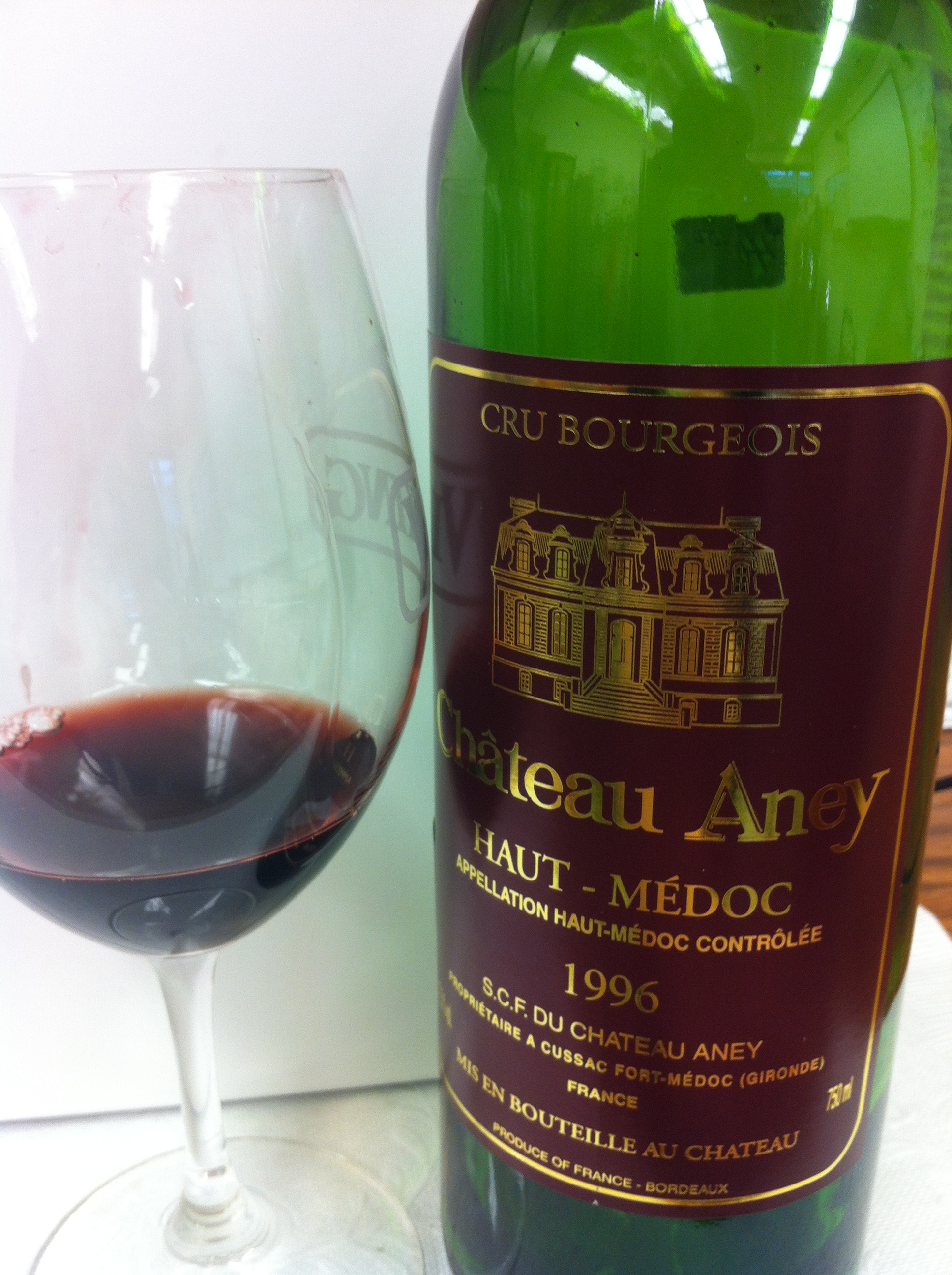 Bordeaux wine from the Haut Medoc